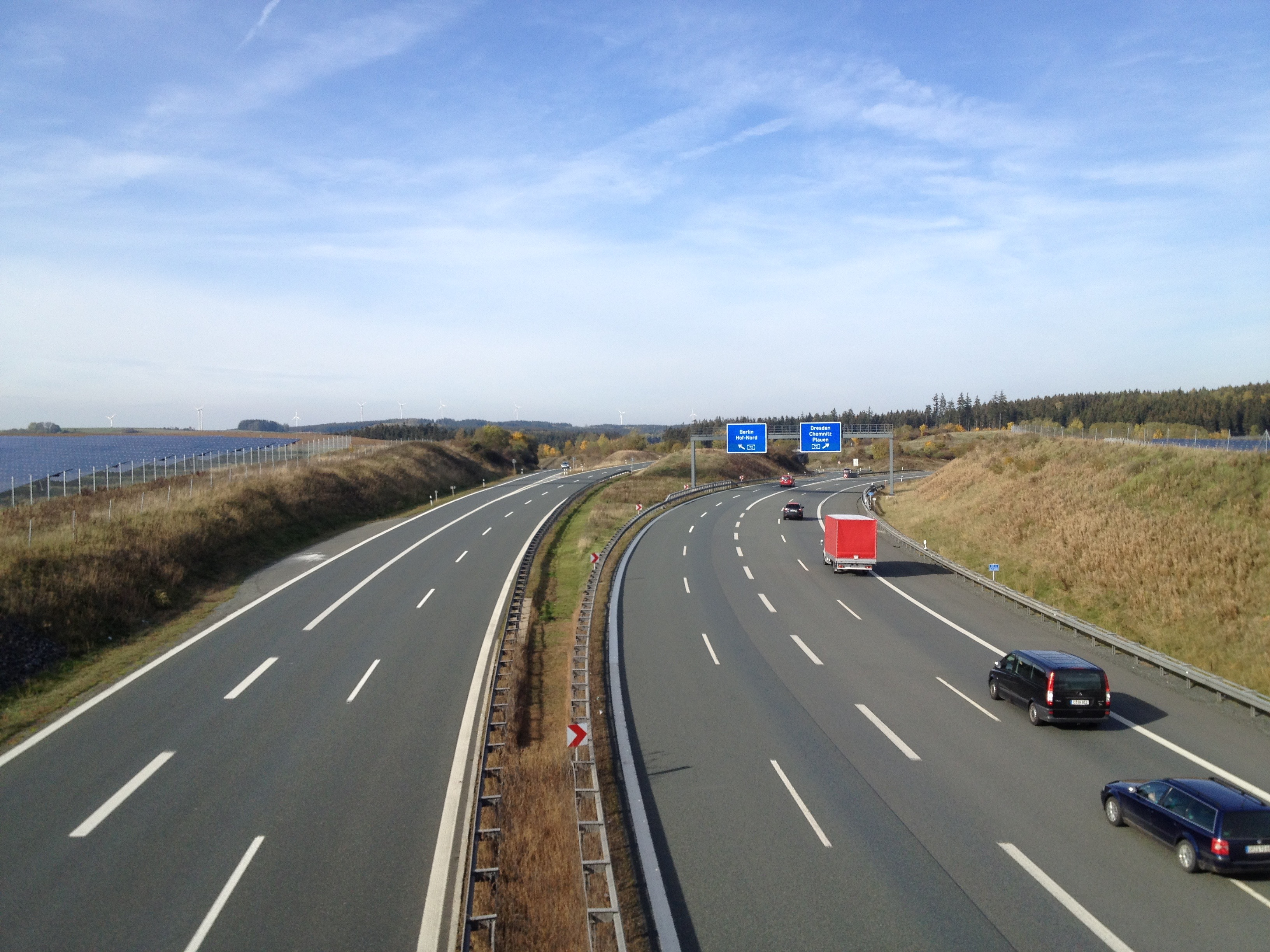 In the picture there is a intersection Hochfranken in Germany.